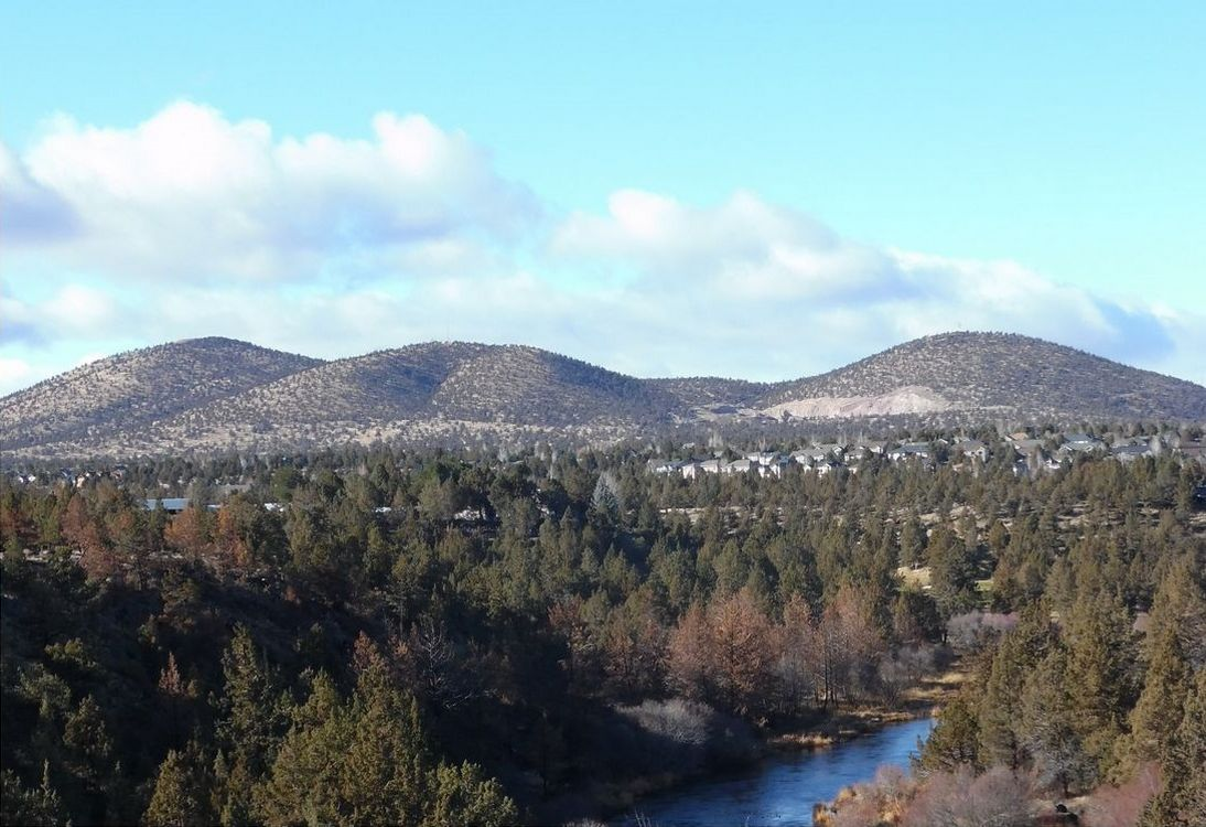 Cline Buttes in Deschutes County, Oregon; the Deschutes River is in the foreground with Eagle Crest Resort in between the river and the buttes